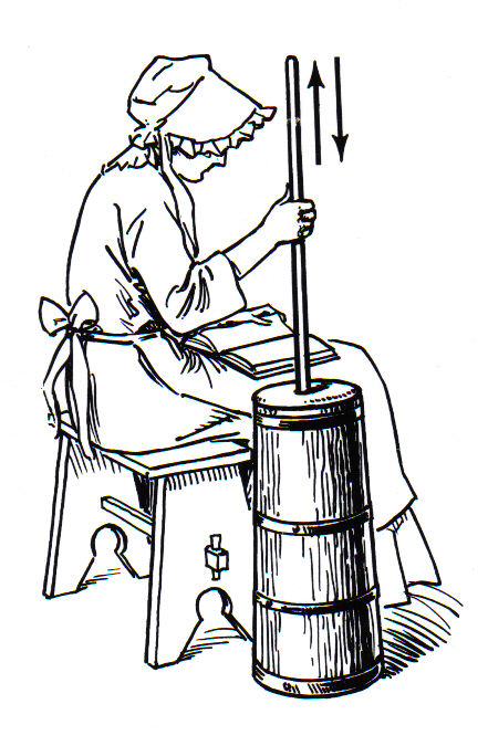 line art drawing of a churn.